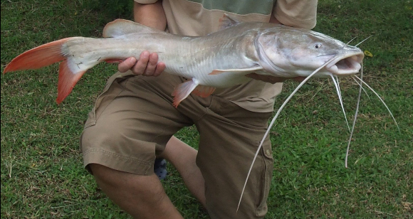 Picture of an Asian Redtail Catfish (Hemibagrus wyckioides)